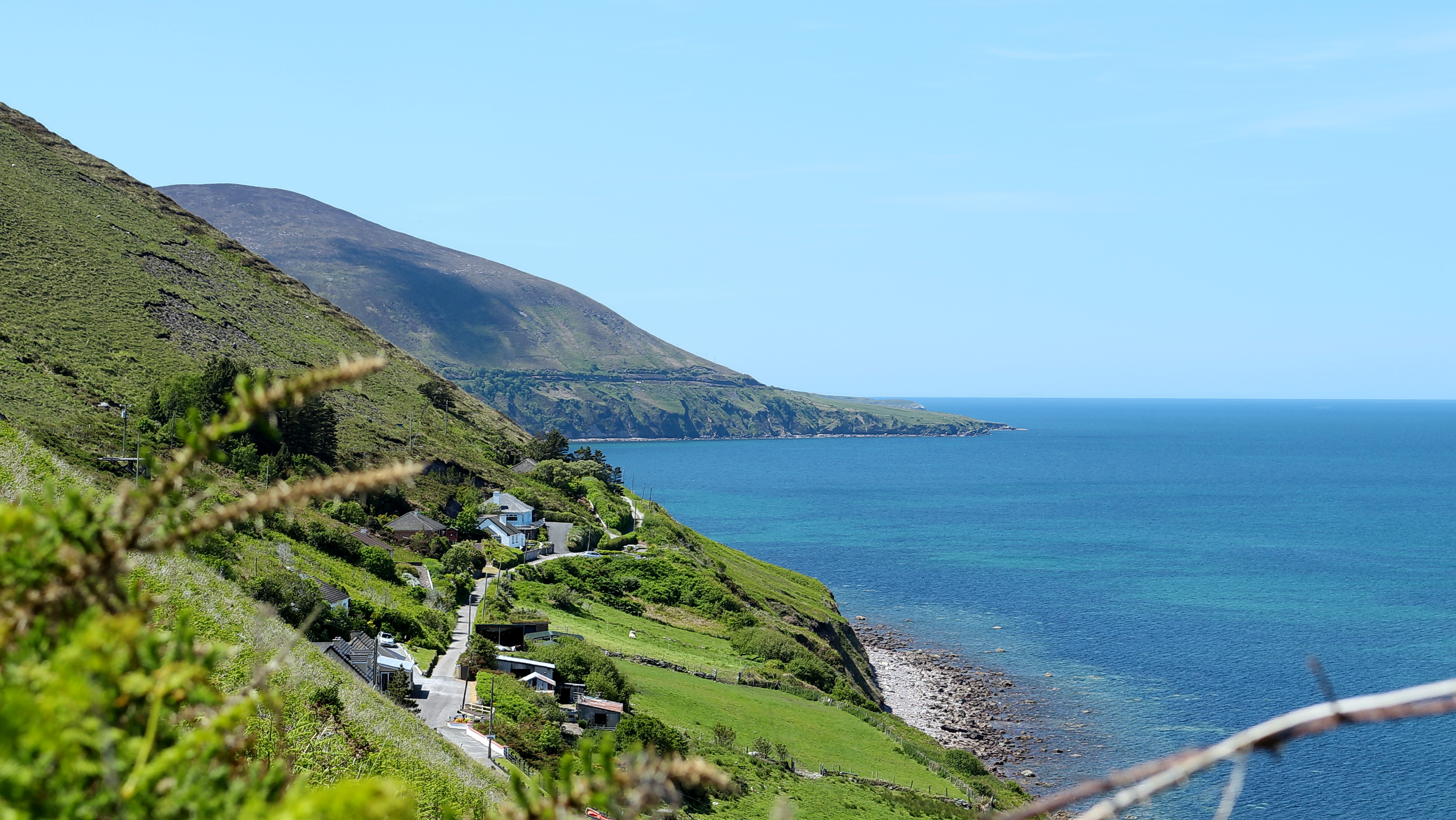 Dingle Bay, Ring of Kerry, Co. Kerry, Ireland